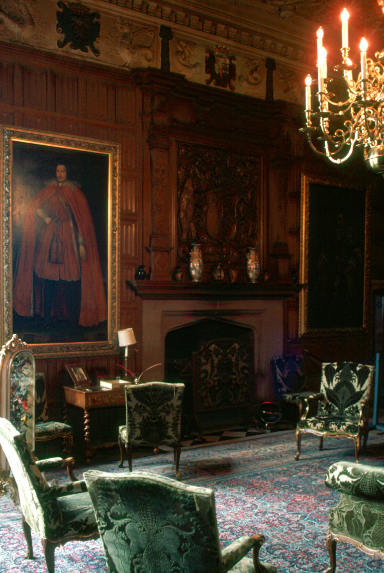 Powys Castle, located in the county of Powys in Wales/UK, Interior